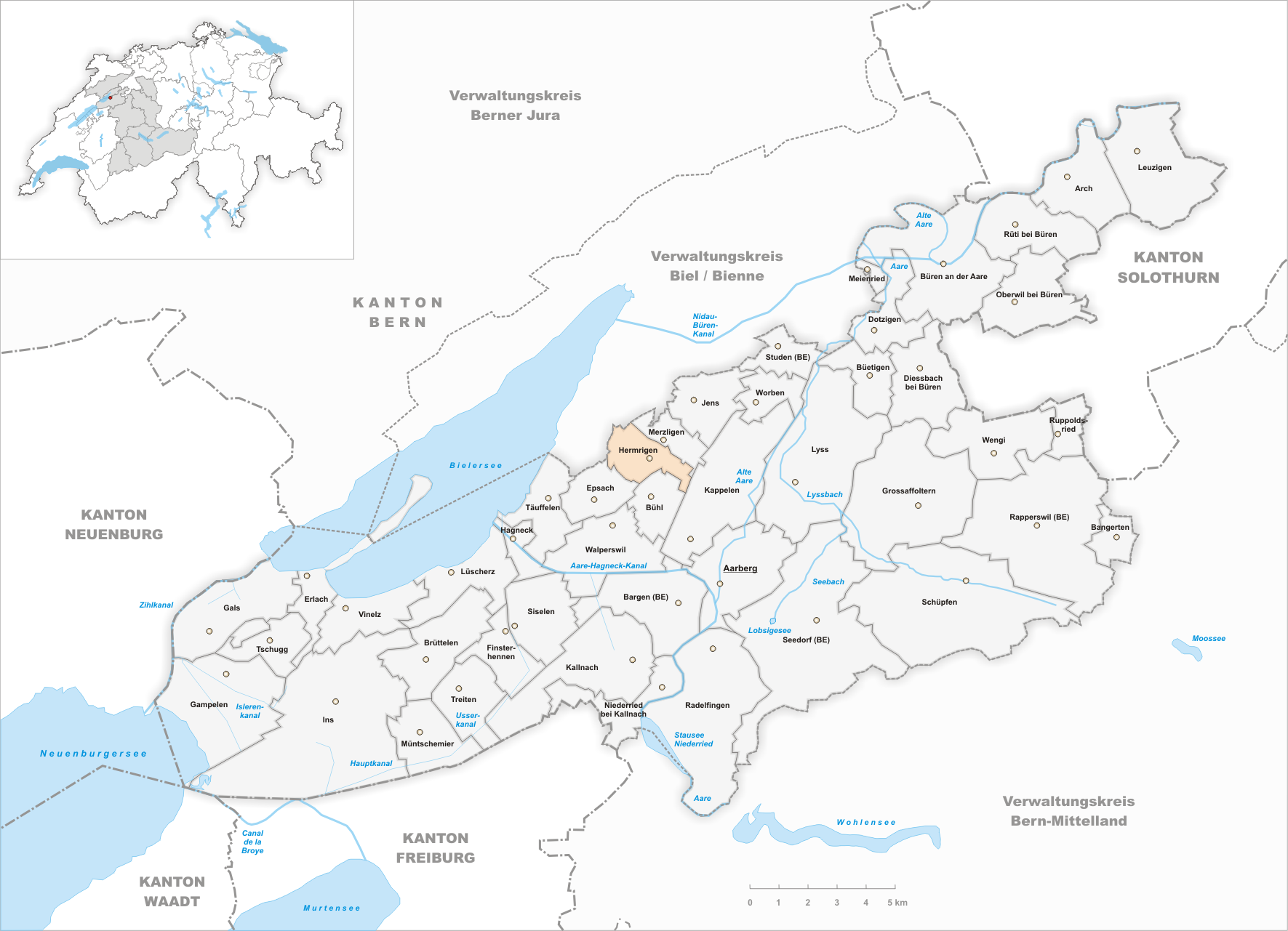 Municipality Hermrigen